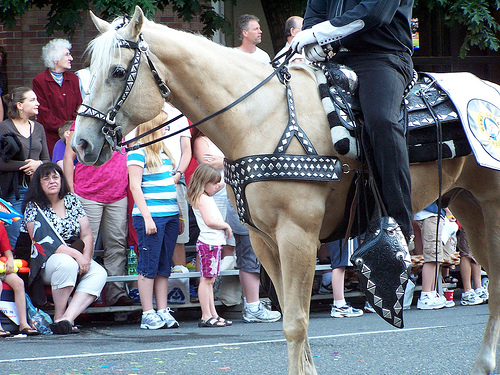 A Palomino horse with classic silver "Parade horse" gear